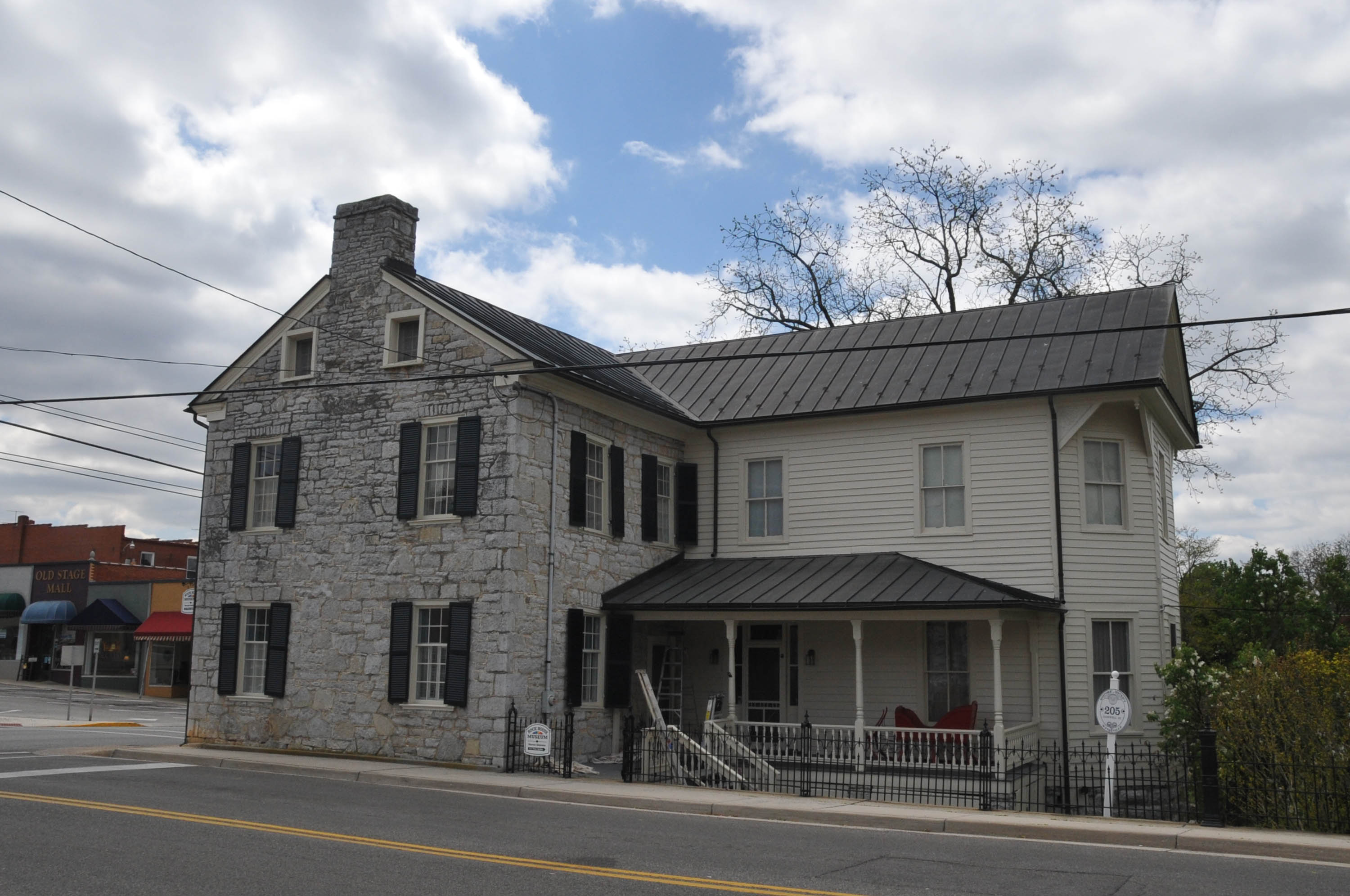 ROCK HOUSE IN WHYTHEVILLE; HOUSE WAS BUILT IN 1823 AND WAS OCCUPIED BY DR. JOHN HALLER THE FIRST PHYSICIAN IN WYTHEVILLE. IT WAS OCCUPIED BY HIS DESCENDENTS FOR MANY YEARS THEREAFETER BUT IS NOW A MUSEUM